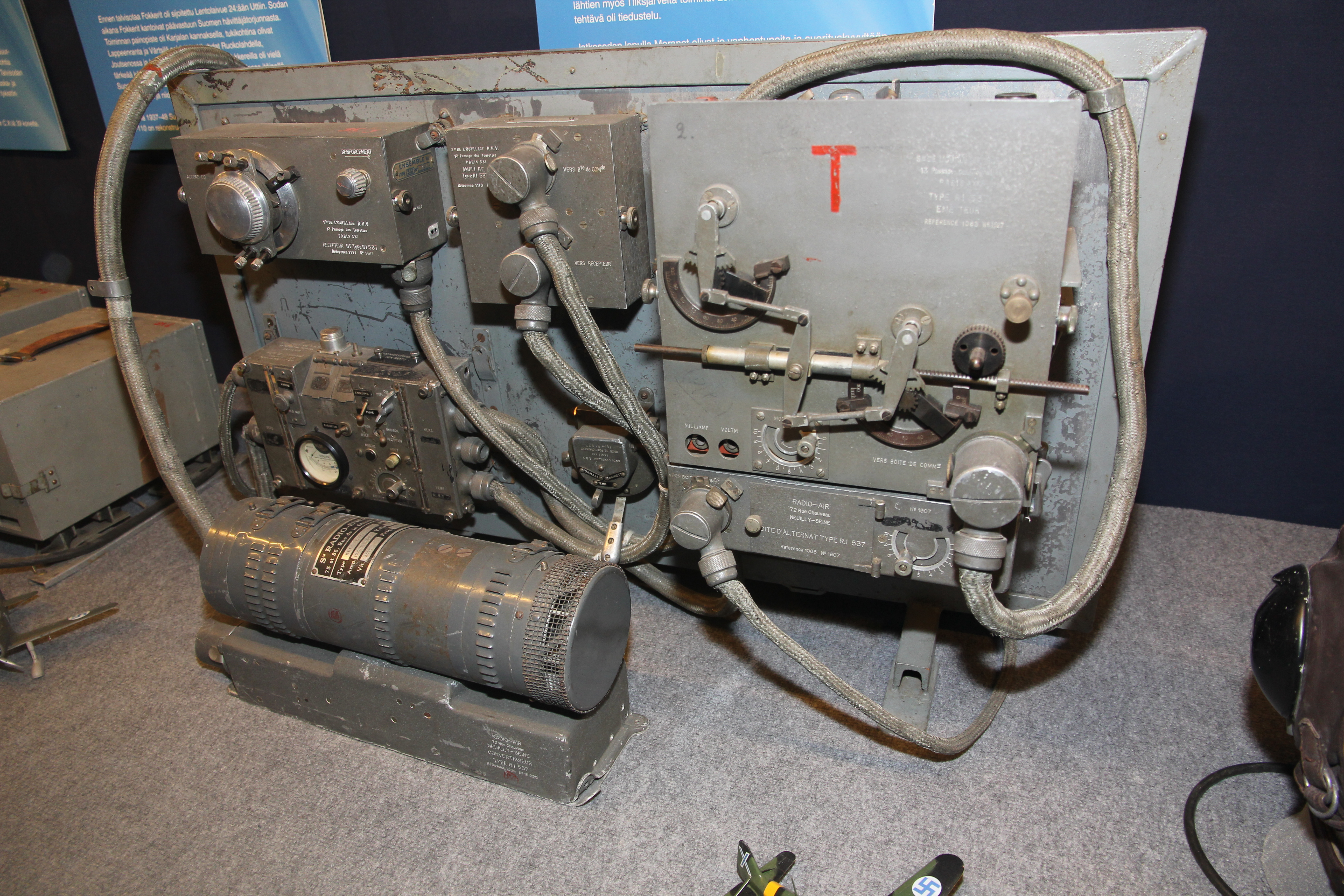 French RI 537 aircraft radio used in Morane-Saulnier MS.406 fighter. Photographed in the Finnish Air Force signals museum.